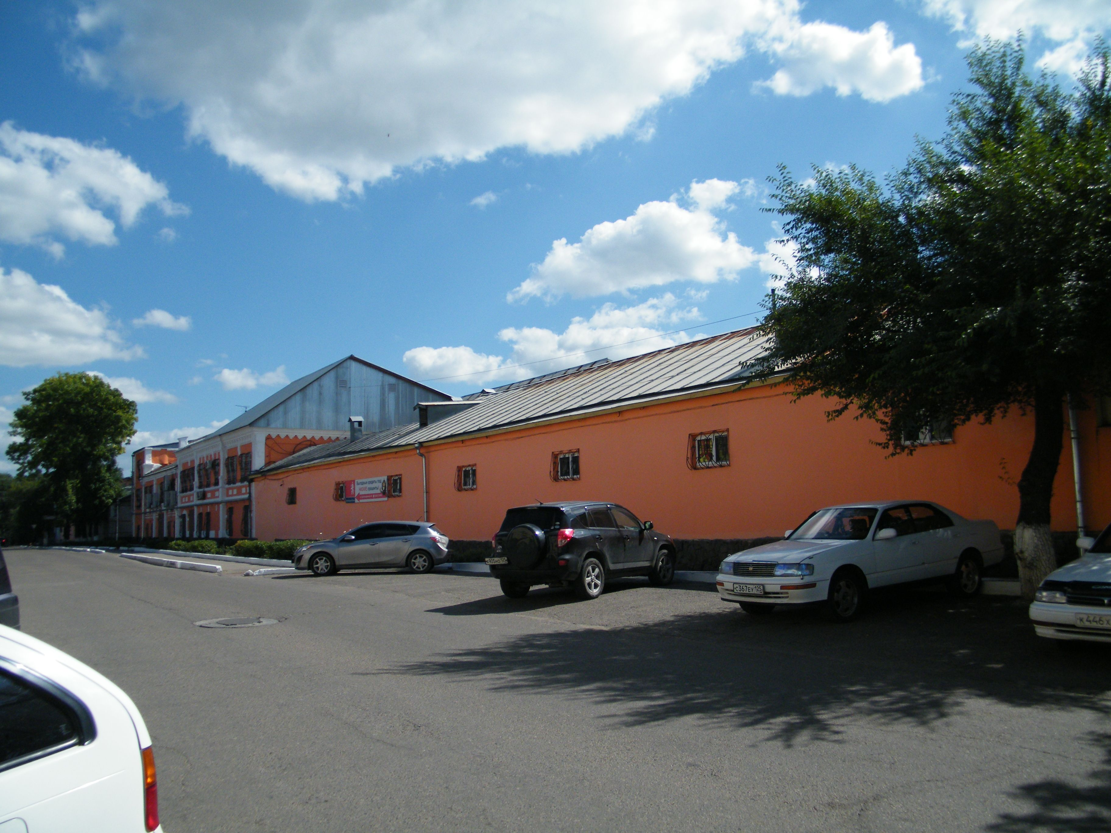 Ussuriysk